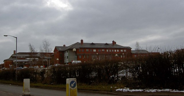 Bassettlaw district hospital, Worksop Looking from Kilton Hill